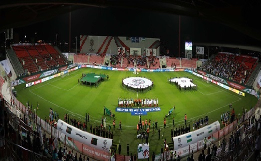 Turkmenistan & Uzbekistan Group F match, 2019 AFC Asian Cup